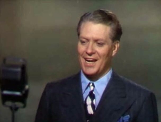 Cropped screenshot of Nelson Eddy from the trailer for the film Sweethearts